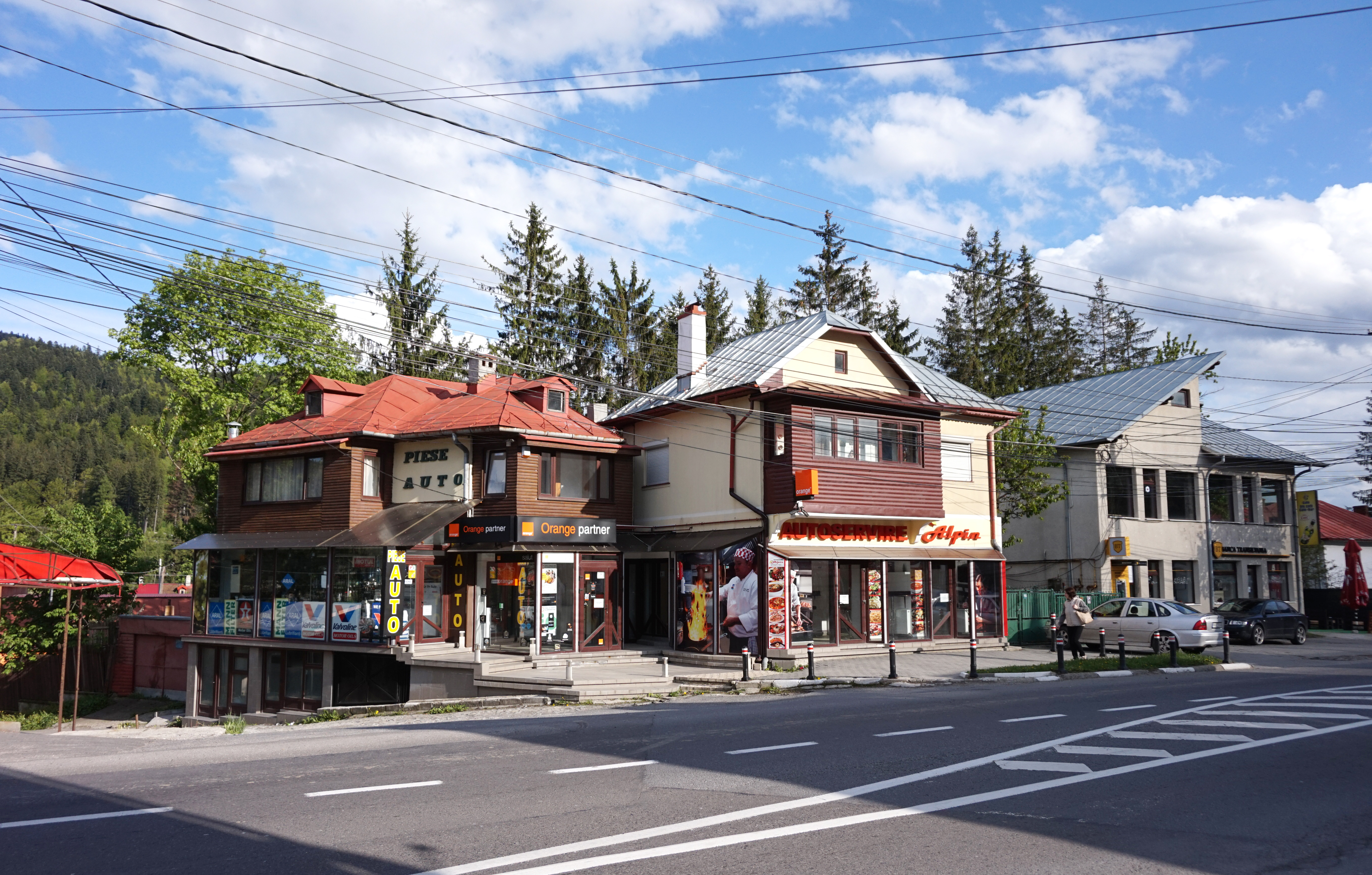 View on the street Bulevardul Libertății in Busteni.This photograph was taken with a Sony ILCE-5000